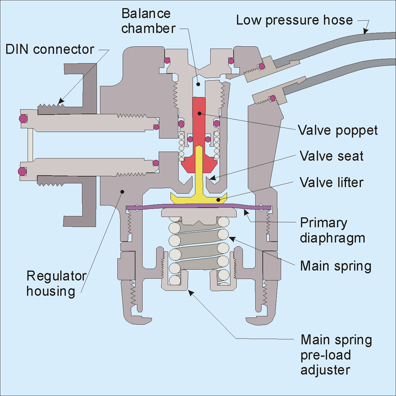 Sectional schematic of Scuba first stahe balanced diaphragm environmentally sealed